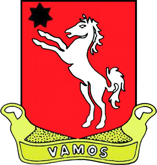 United States Army 27th Cavalry Regiment Distinctive Unit Insignia